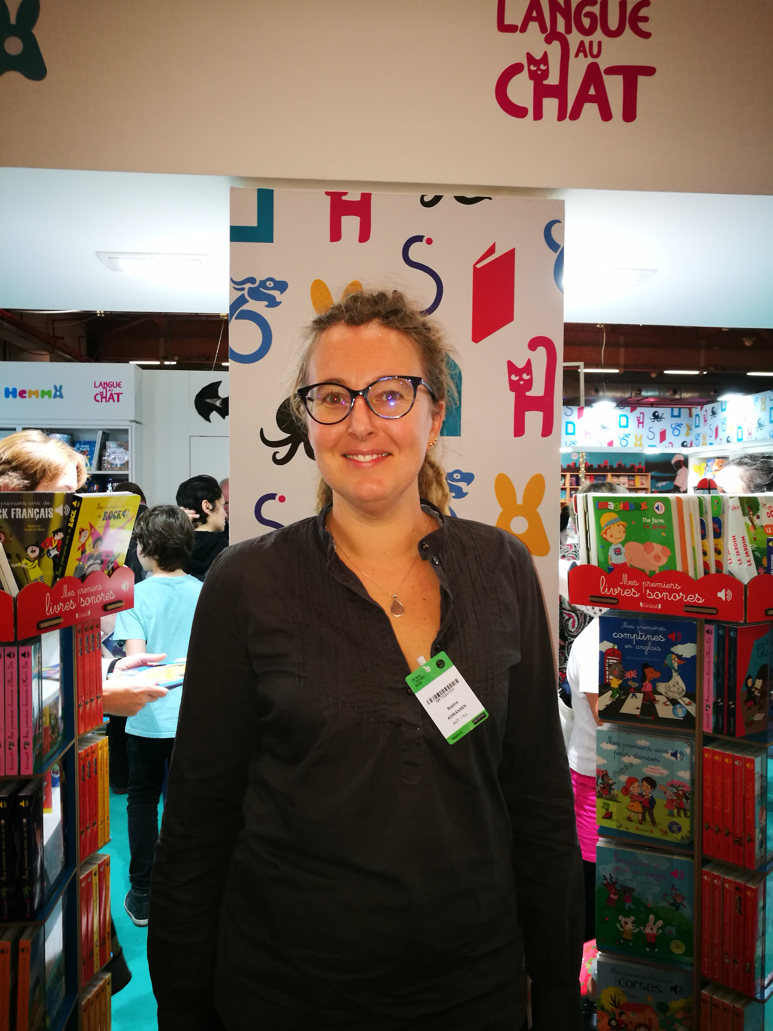 French writer Sophie Adriansen at the Nathan booth of the Salon du Livre et de la Presse Jeunesse at Montreuil, France.